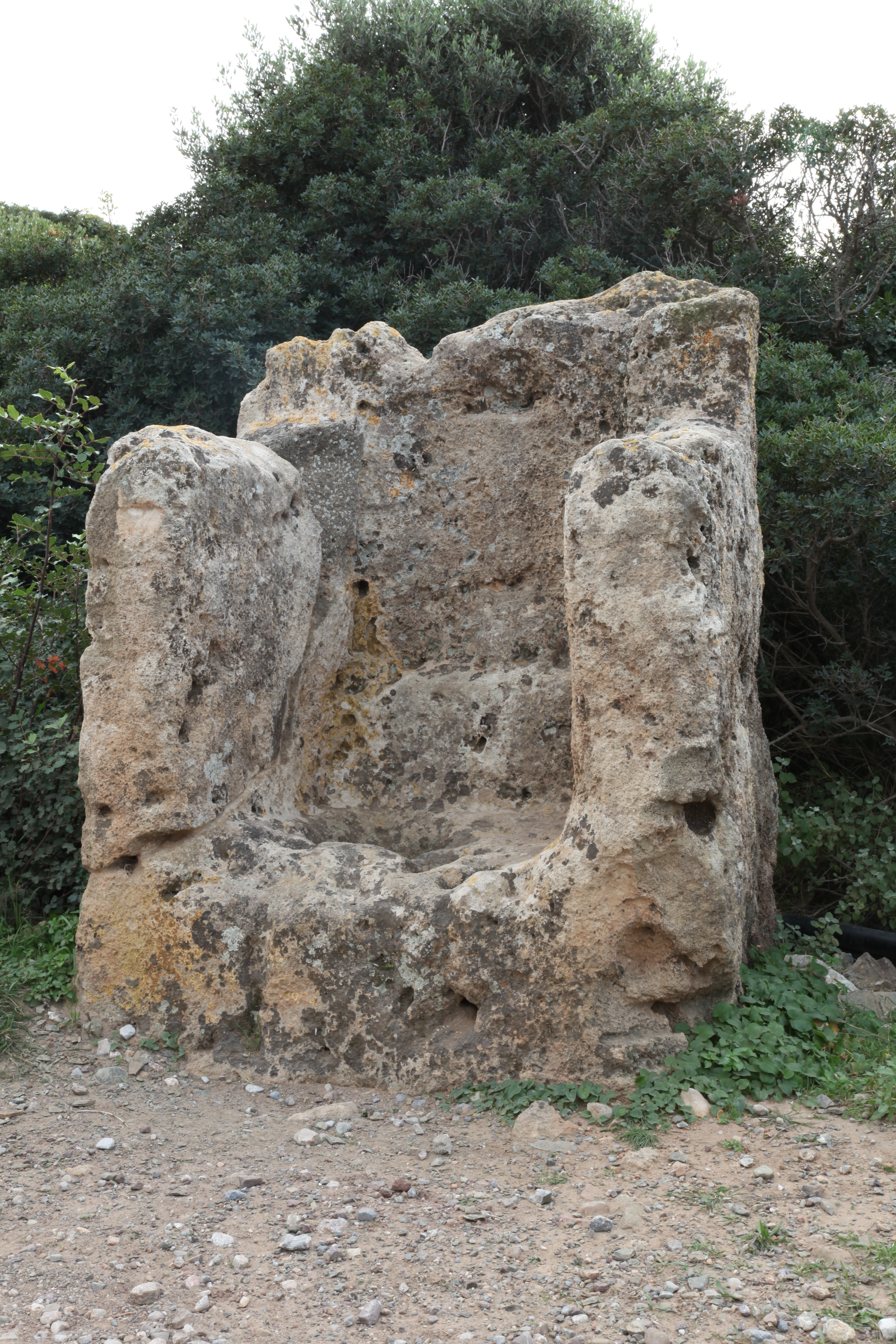 Hellenistic throne in the archaeological site of Phalasarna